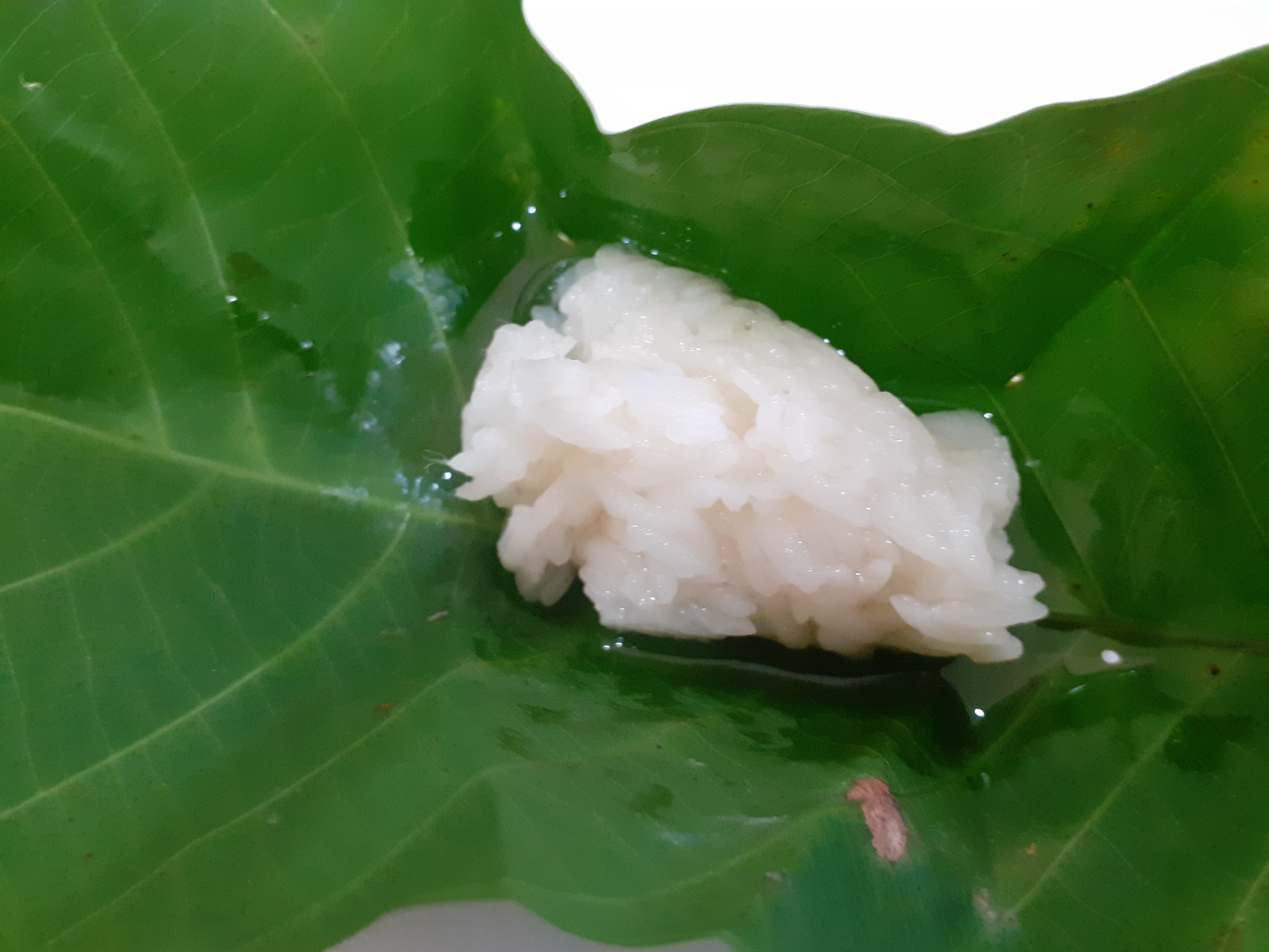 Tapai Pulut is a common food that are eaten by majority of Malays in Malaysia during Hari Raya festival. It is wrapped in the leaf of rubber tree.